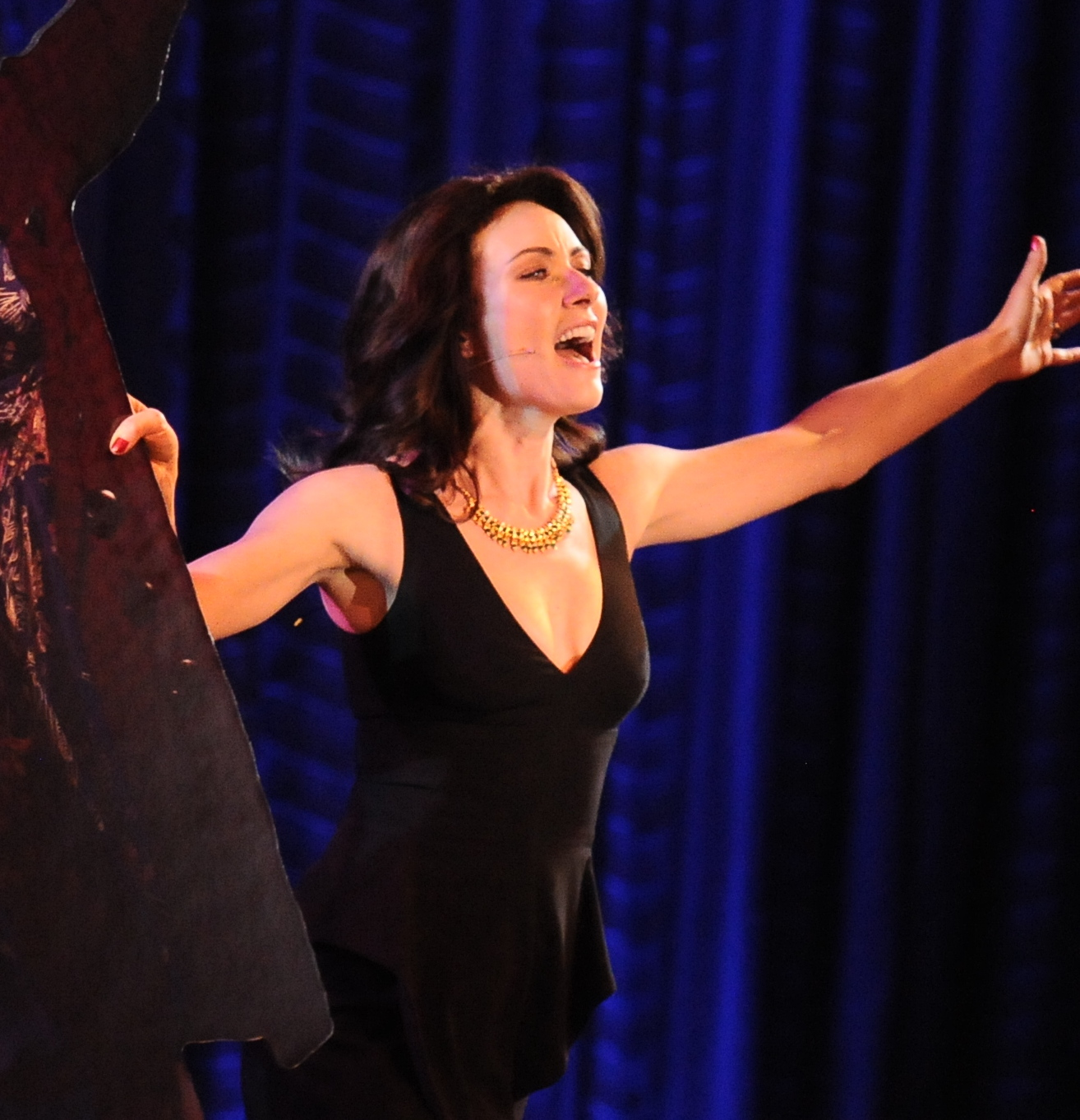 Boyd Gaines, Laura Benanti. photo by Rob Rich © 2011 516-676-3939